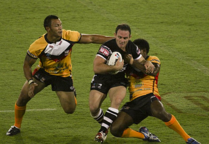 Lance Hohaia running into the Papua New Guinea defence while representing New Zealand during the 2008 Rugby League World Cup. Group A match NZ versus PNG on 01-11-2008 at Skilled Park, Gold Coast, Australia.